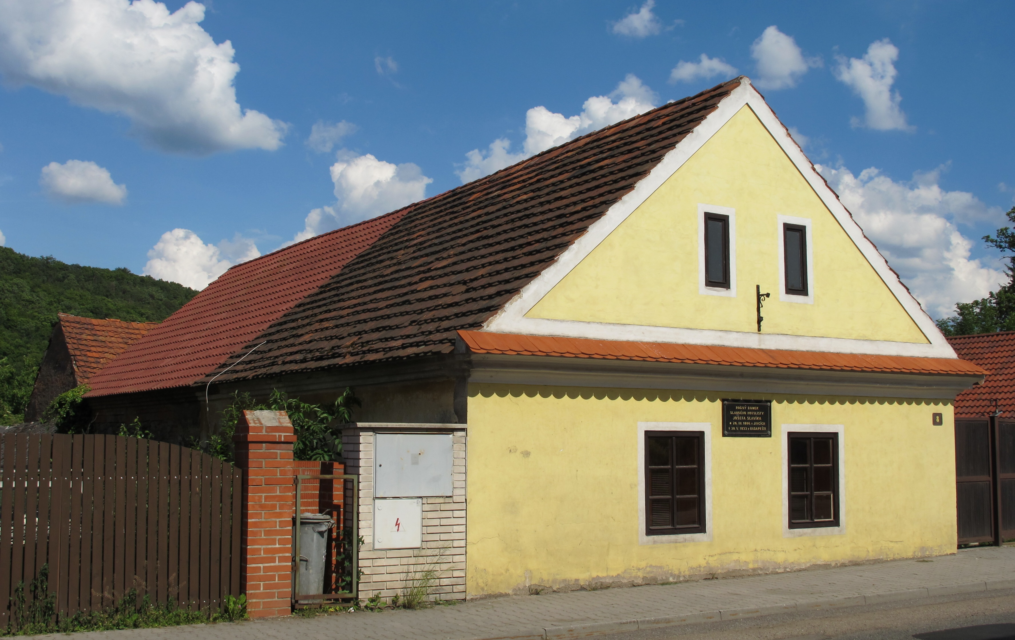 Jince in Příbram District